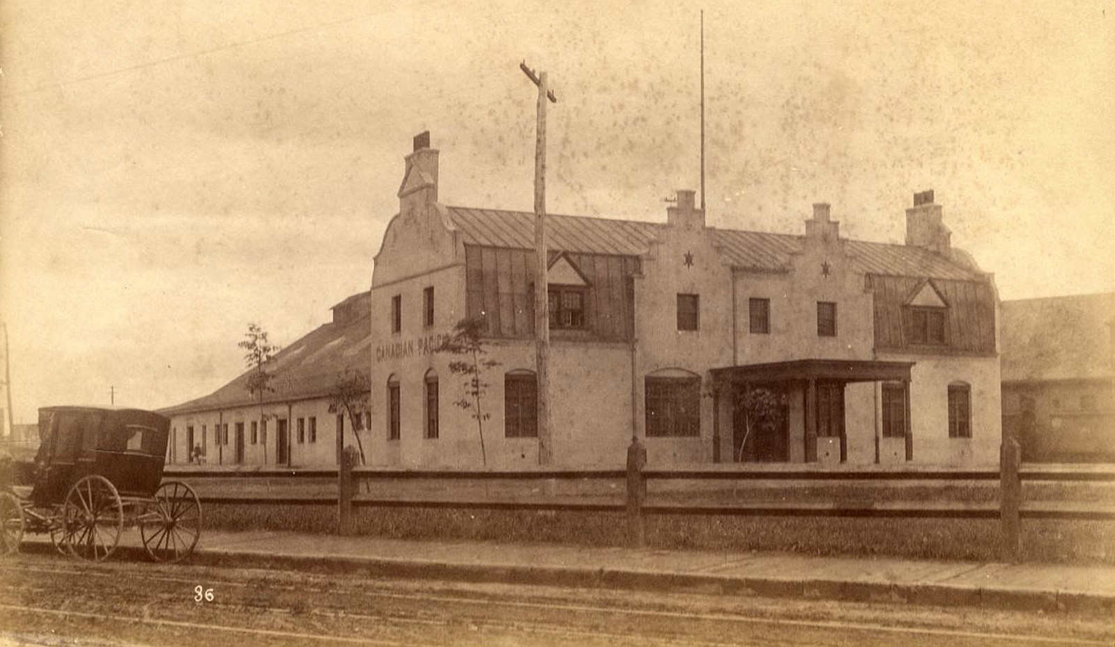 Quebec City Canadian Pacific station on Saint-Paul Street in Quebec City in 1894.